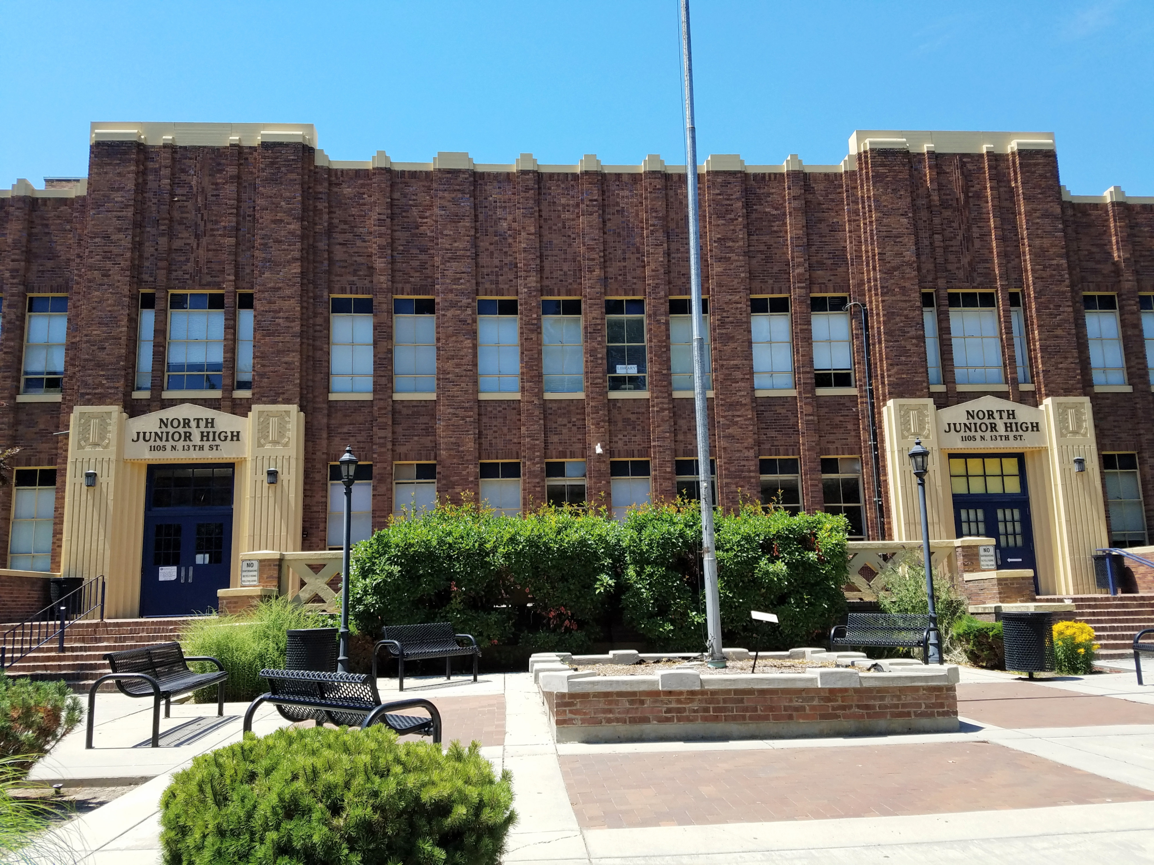 Boise Junior High School (1937), renamed North Junior High School, was designed by Tourtellotte and Hummel and constructed of locally sourced brick and sandstone as a WPA project. The building is listed on the National Register of Historic Places and is part of the Fort Street Historic District.